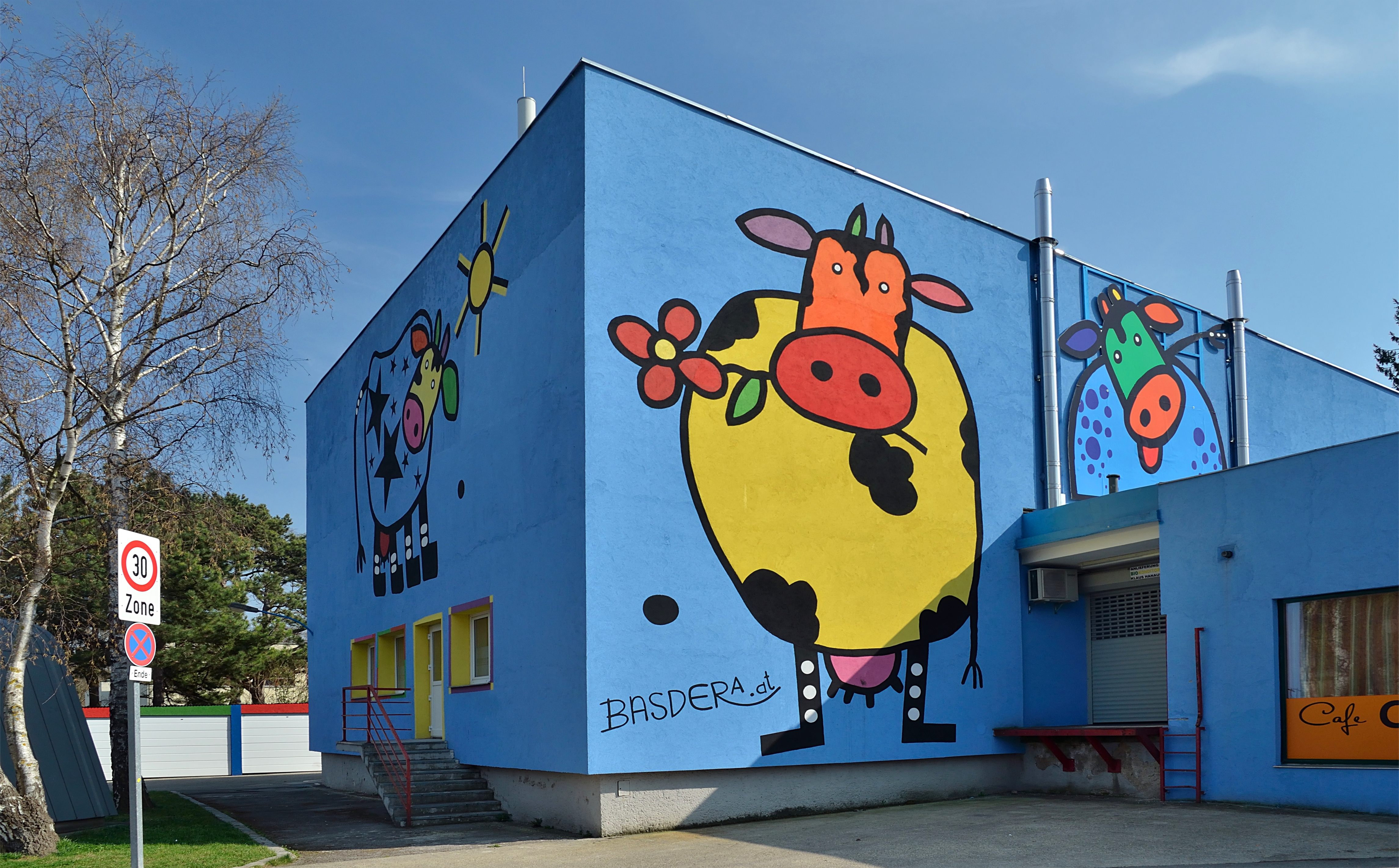 Cows by Franz Basdera at Hanauer Torten, Willergasse, Rodaun, Vienna.